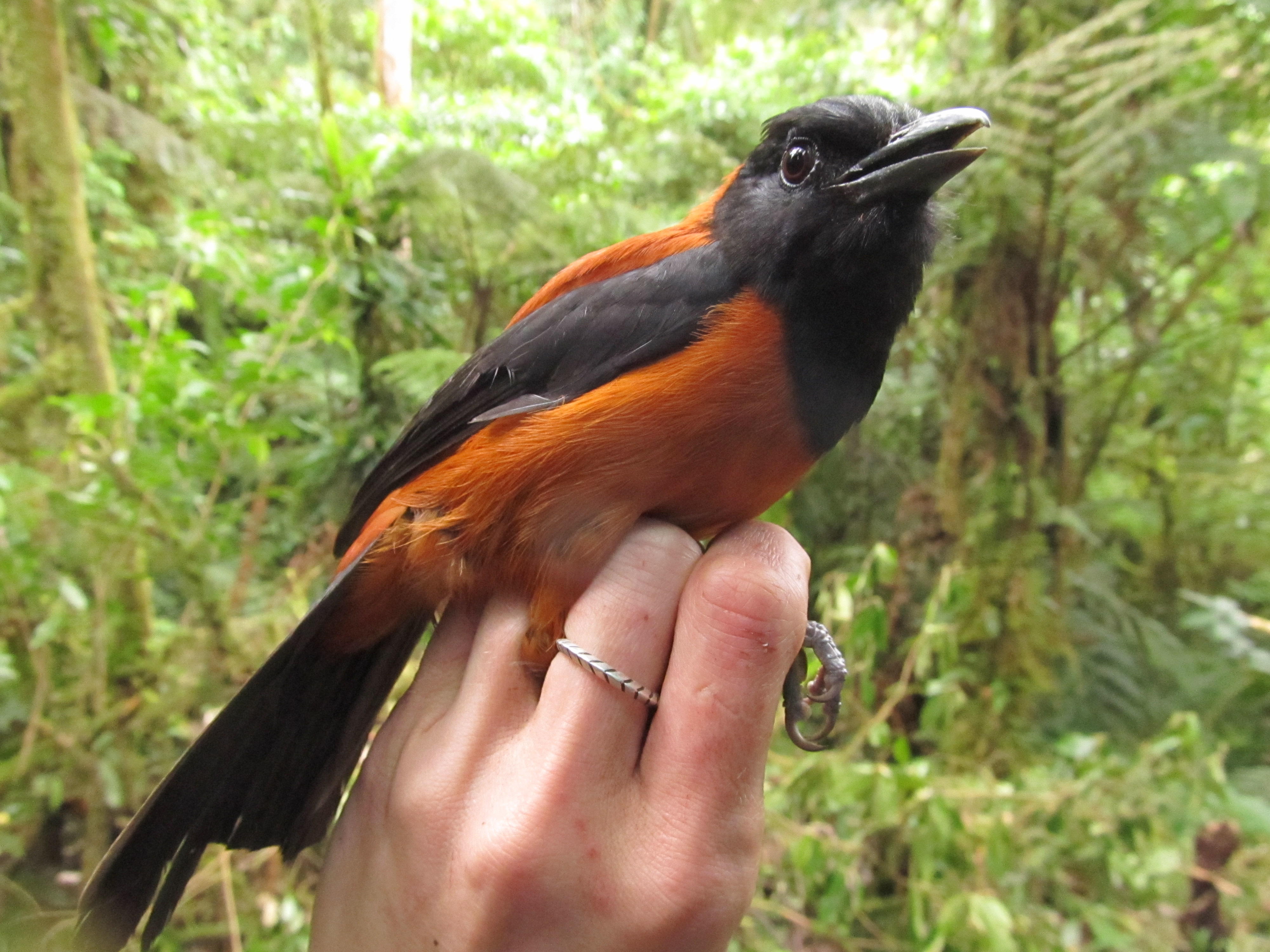 Hooded Pitohui (Pitohui dichrous) YUS Conservation area on the Huon Peninsula, Morobe Province, Papua New Guinea